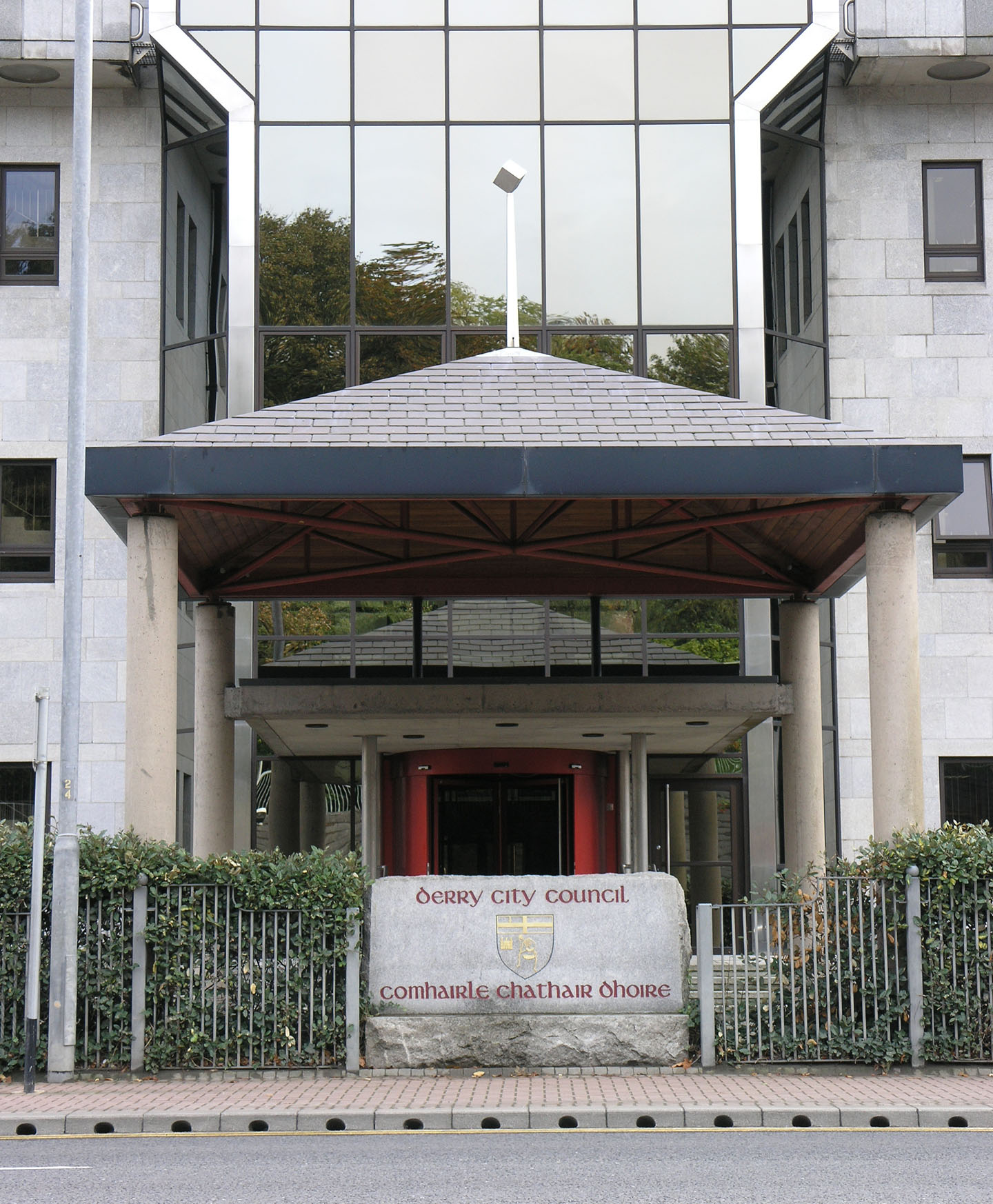 Derry City Council headquarters, Strand Road, Derry. Taken by me SeanMack.